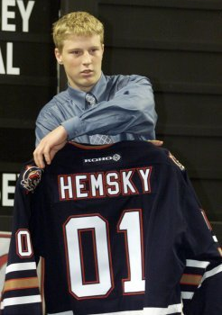 I took this picture of ales hemsky at the 2001 NHL entry draft. no url